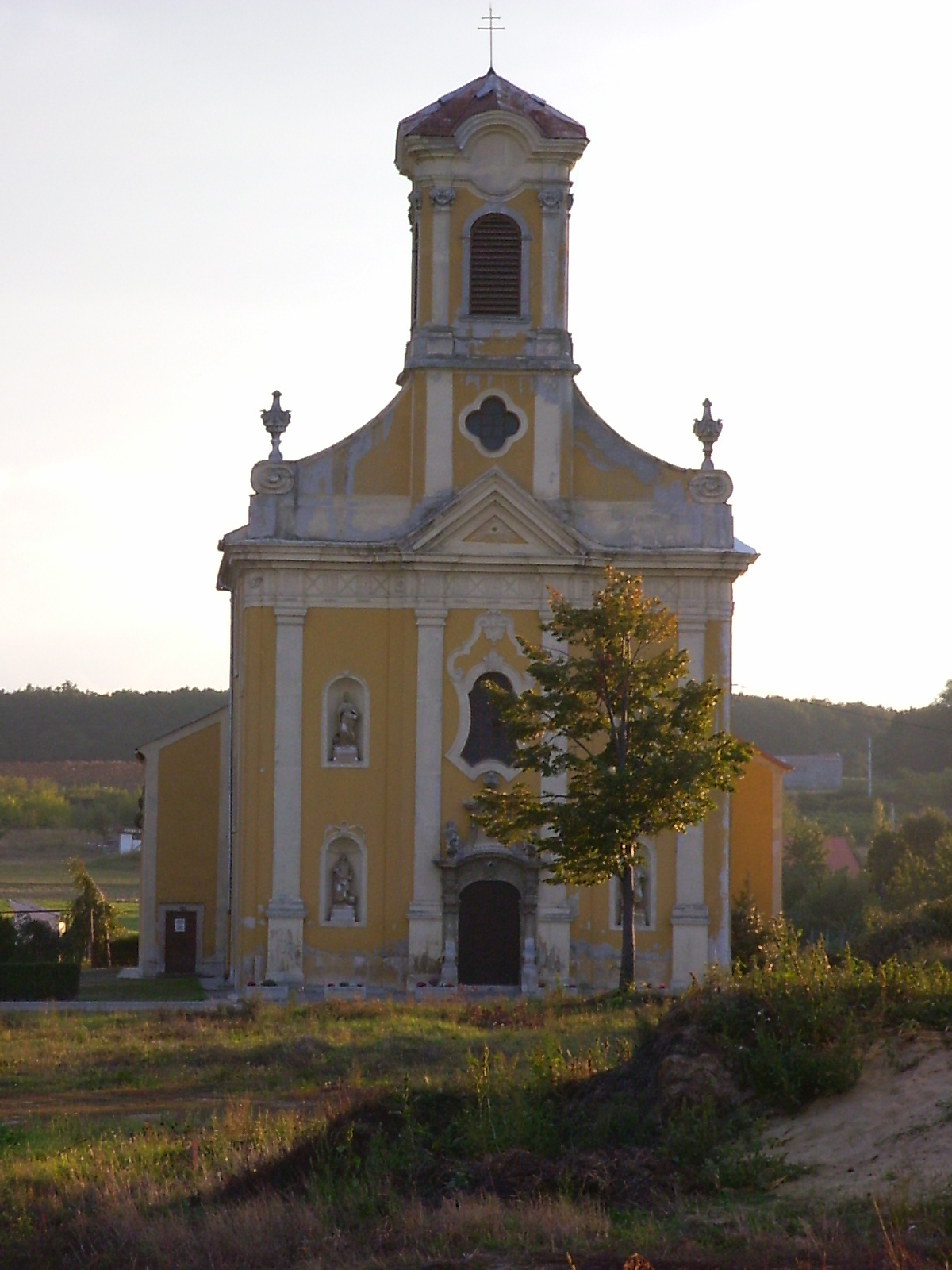 Church of Visitation in Kópháza This is a photo of a monument in Hungary, Identifier: 4492